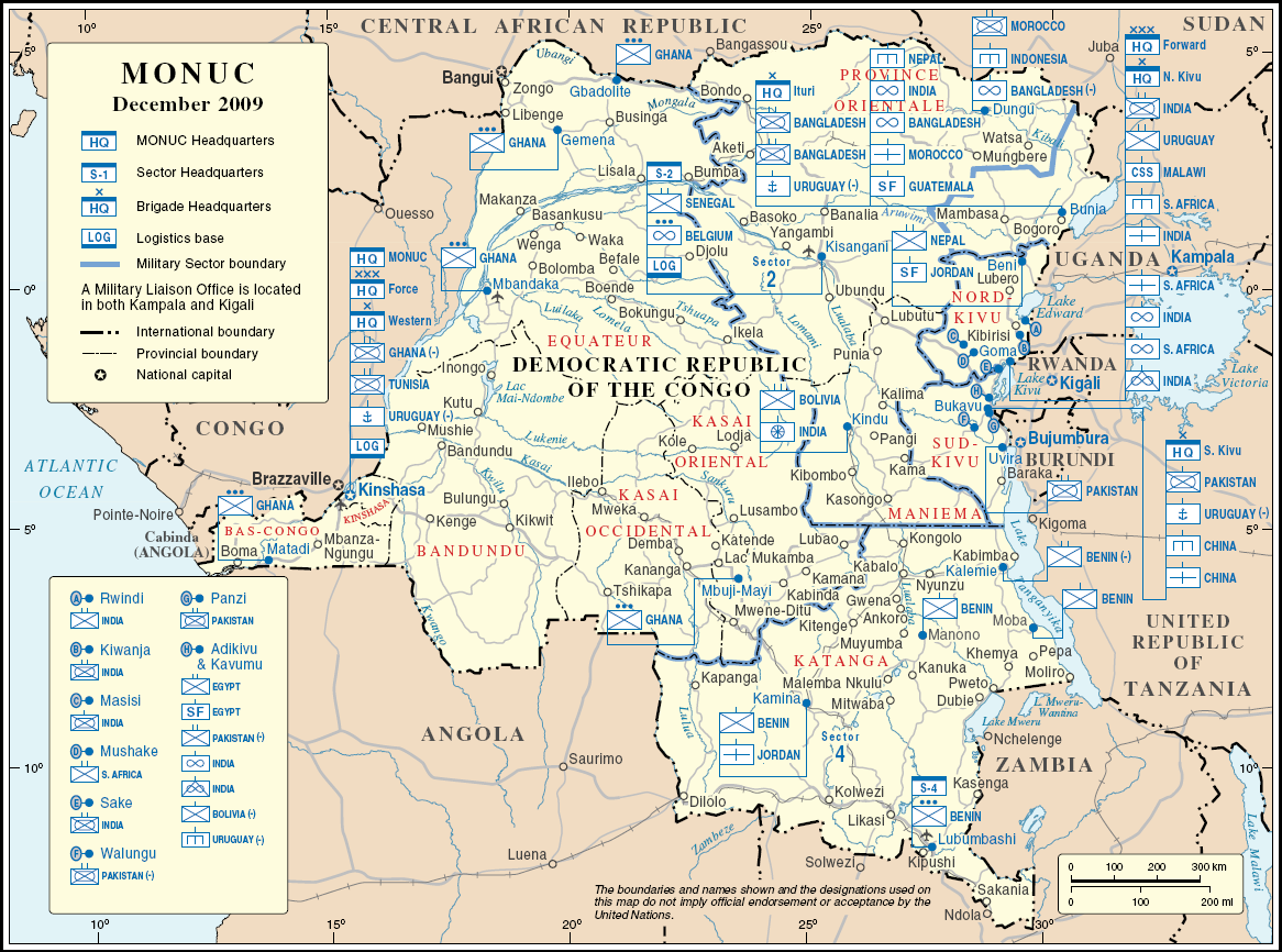 Locations of military units deployed to the Democratic Republic of Congo as part of the United Nations Mission in the Democratic Republic of Congo (MONUC) at December 2009. Based on UN Map No. 4121 Rev. 44